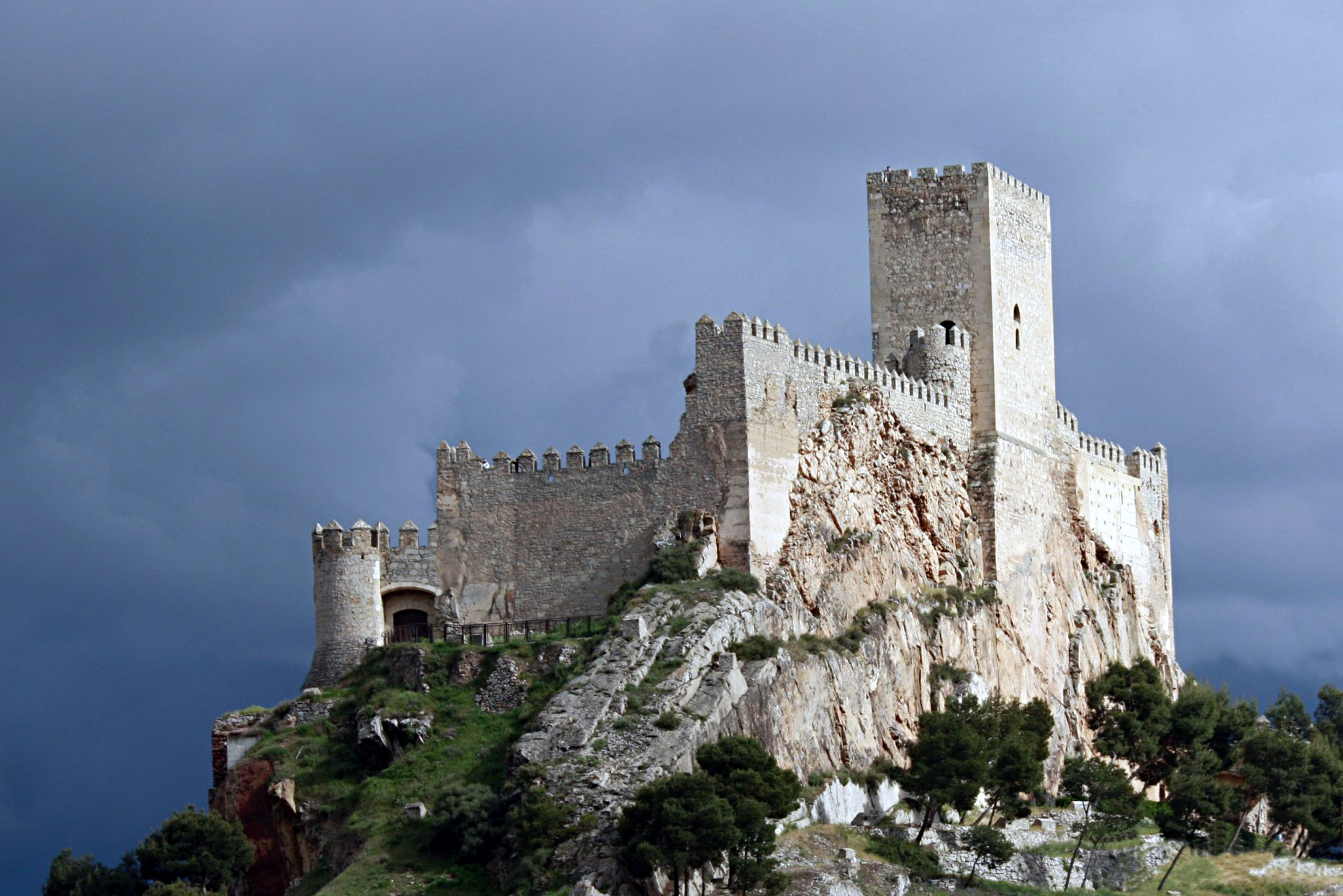 Almansa Castle on the hill of Aguila